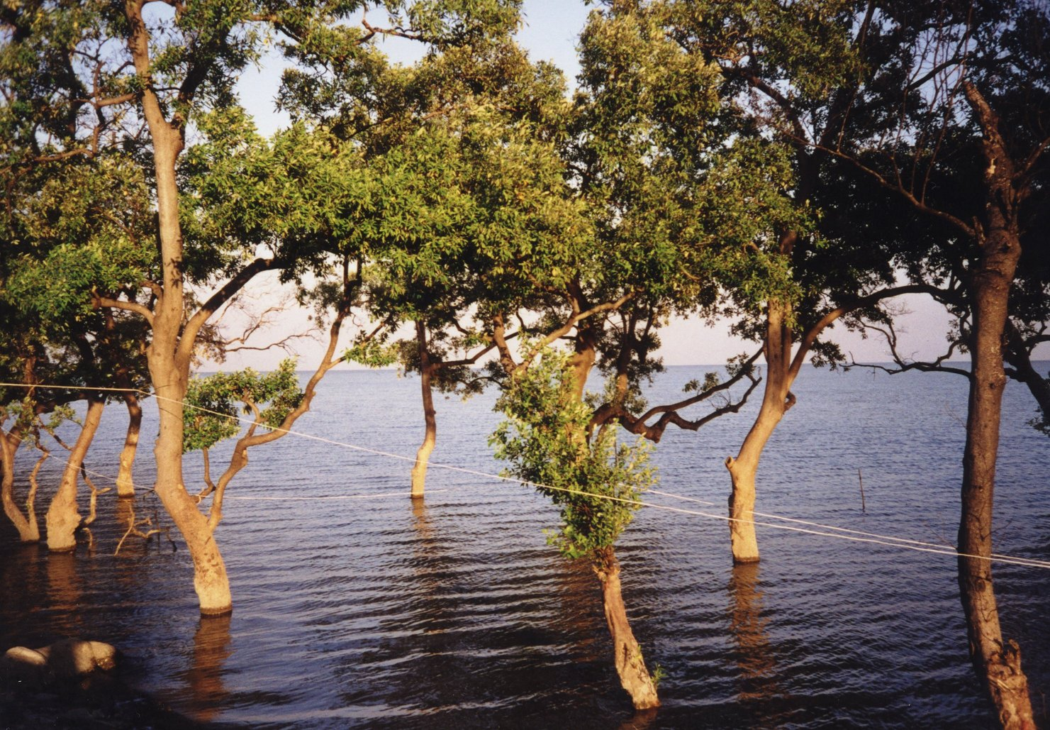 Tree is the ocean at high tide, at Don Hoi Lot, Samut Songkhram Province, Thailand. Photo taken by User:Ahoerstemeier in 2000.